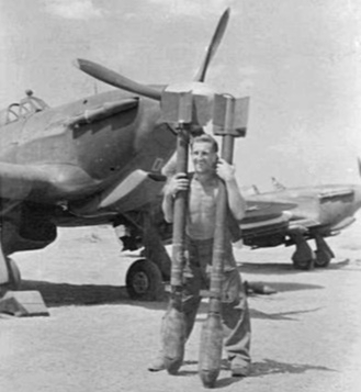 Sergeant Albert (Tinny) Martin, Royal New Zealand Air Force (RNZAF) of Wellington, New Zealand, of No. 20 Squadron, RAF, at Monywa, Central Burma, 17/18 March 1945. He is holding two rockets, used by Hurricane Mk.IV aircraft in the background.